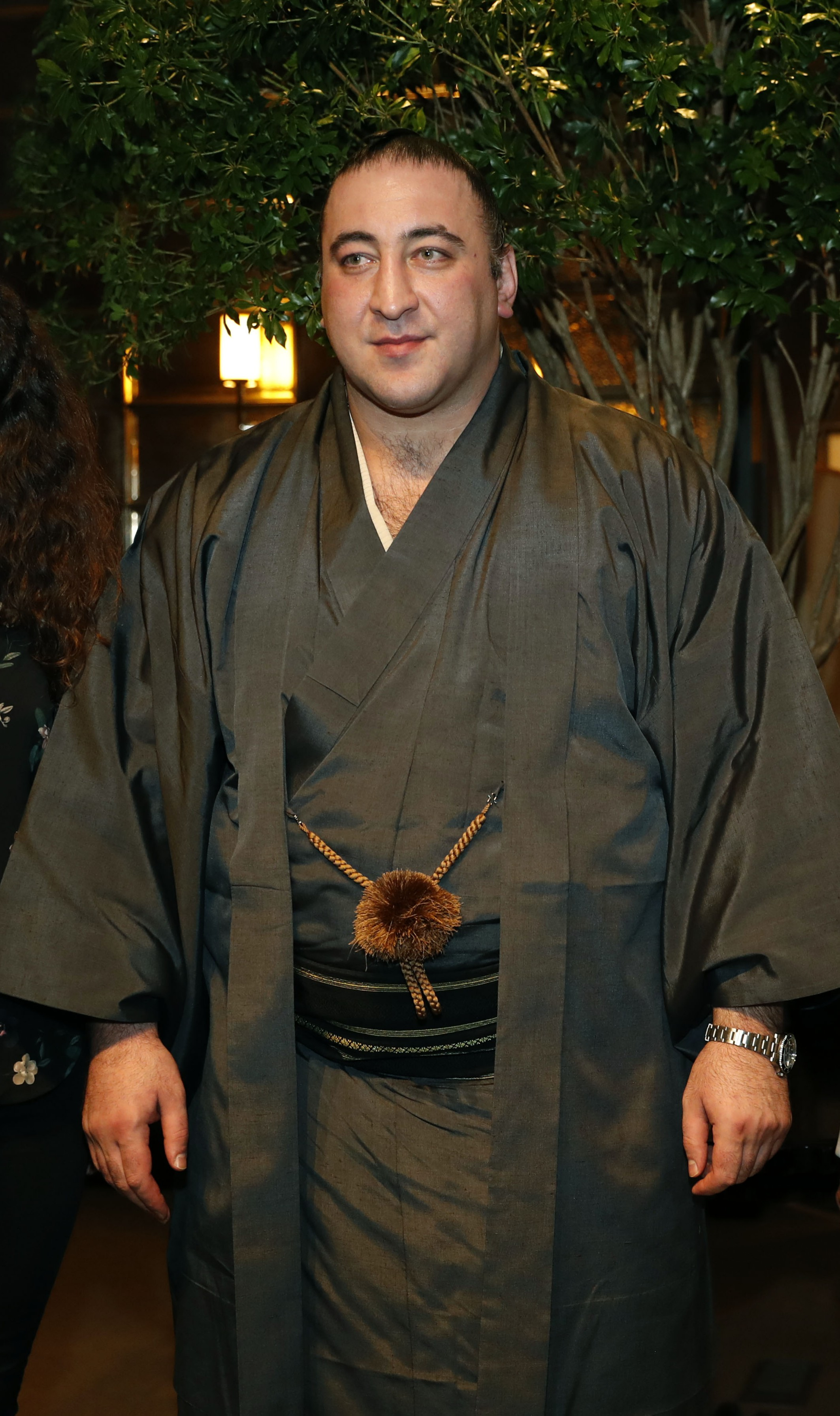 Tochinoshin